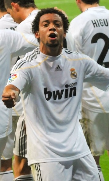 Marcelo in Real Madrid. The size of this image was adjusted by Photoshop. The original photo was taken by Jan S0L0 in Chamartín,Madrid.